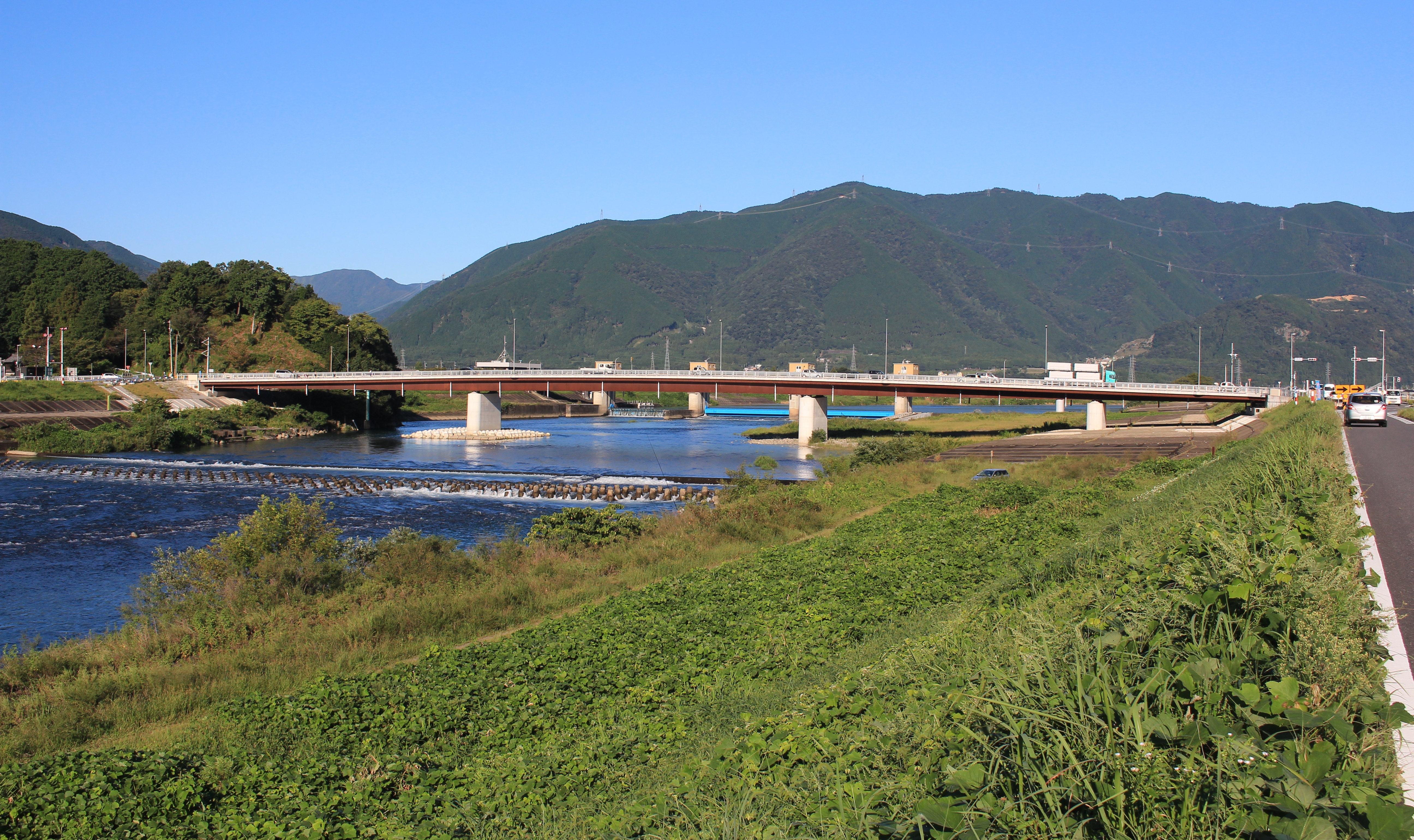 Okajima Bridge (Okajima-bashi) over Ibi River, in Ibigawa town, Gifu prefecture, Japan.